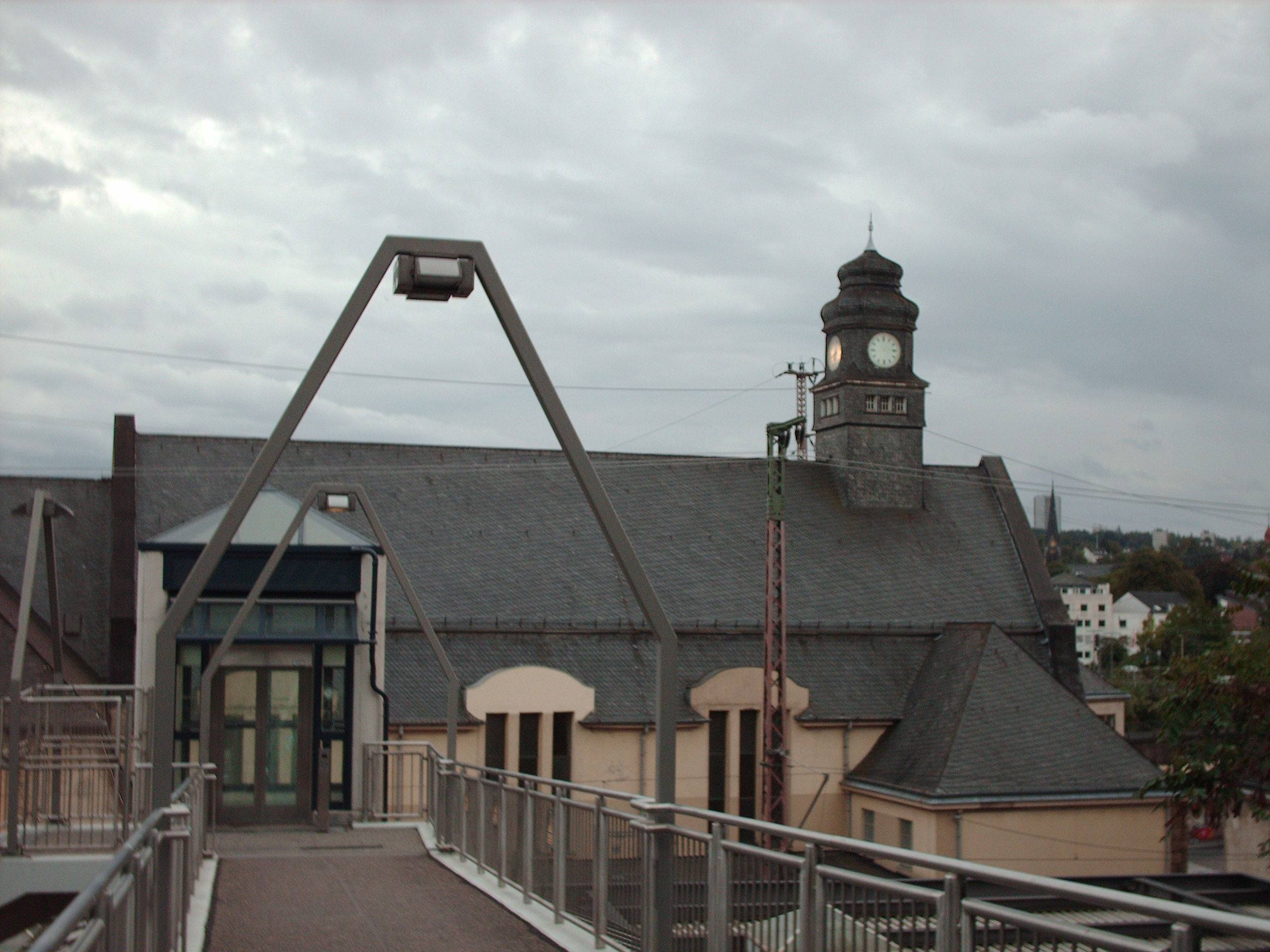 Wuppertal-Vohwinkel Station, Wuppertal, Germany check usage